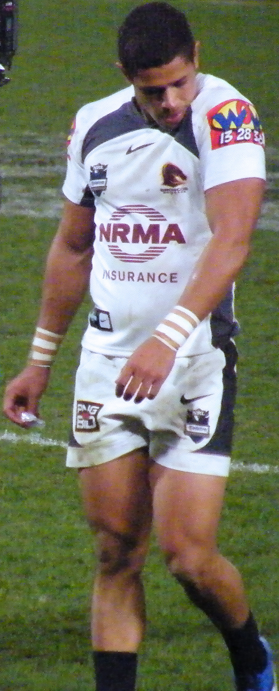 Dane Gagai